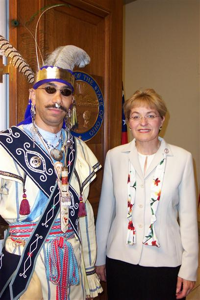 Jamie Oxendine (Lumbee Native American) of Toledo (left) and U.S. Congresswoman Marcy Kaptur (right) during the opening of the National Museum of the American Indian in Washington, D.C.